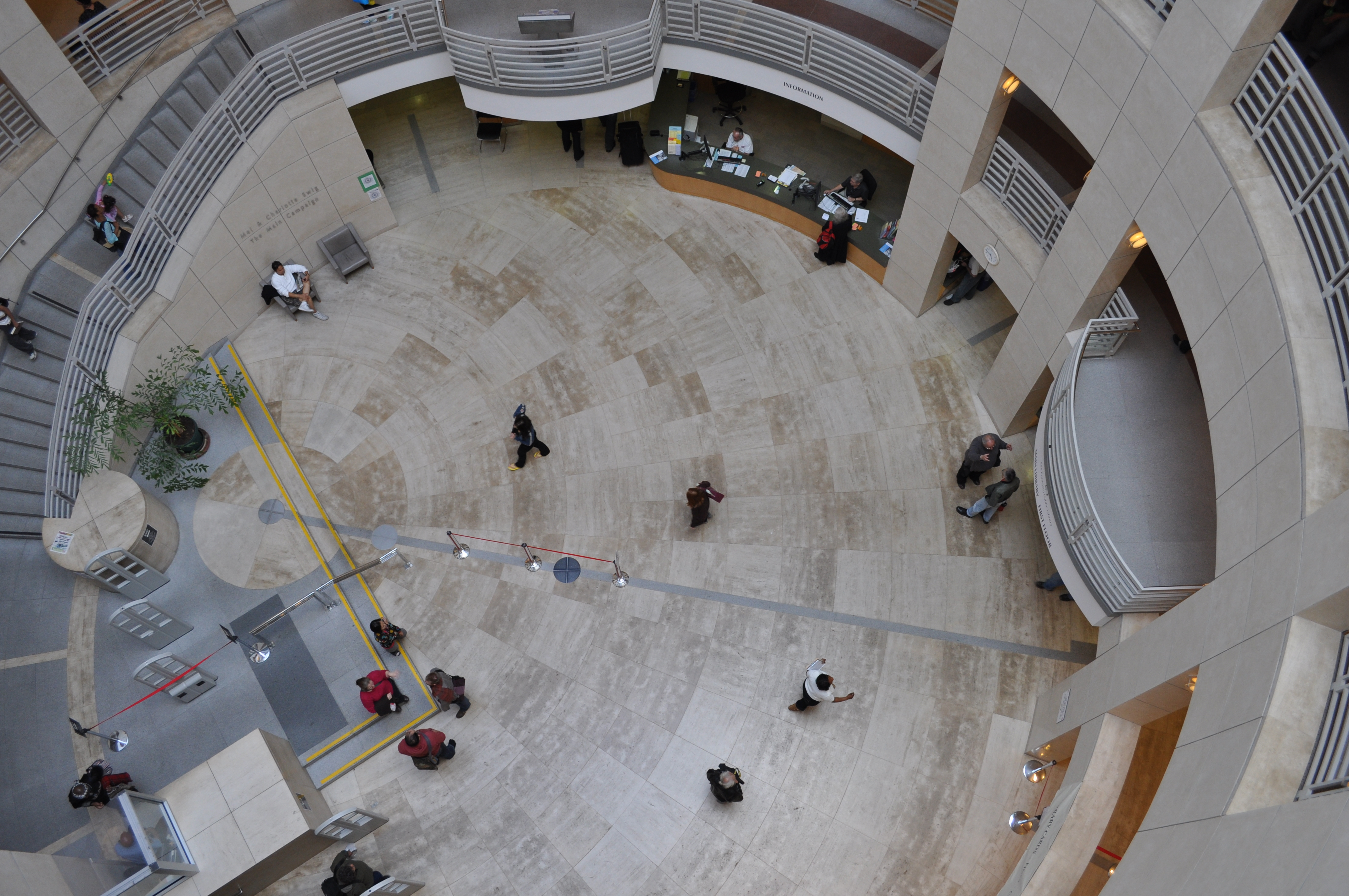 Looking down in the atrium of the main branch of the San Francisco Public Library, San Francisco, California, USA.